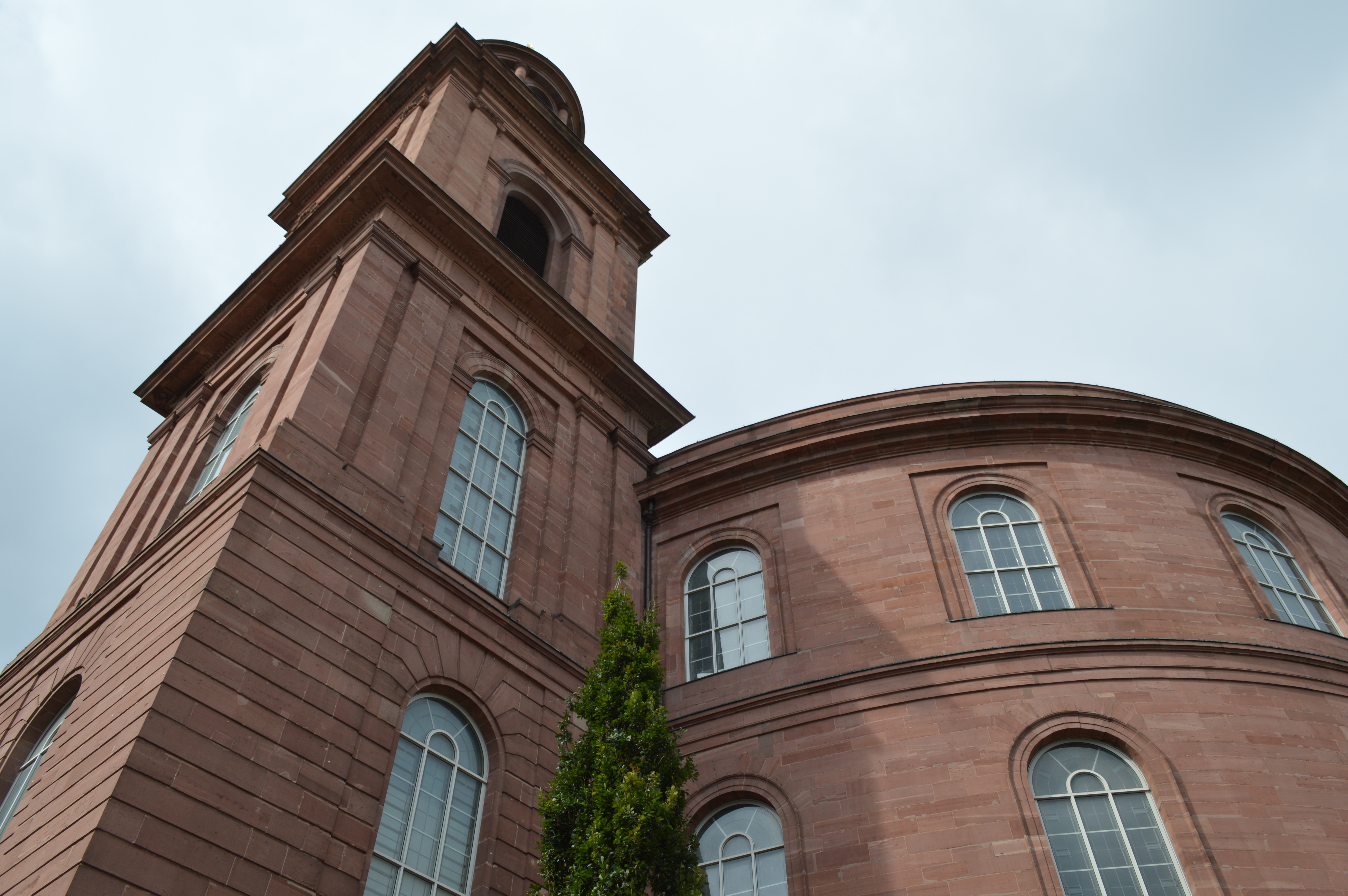 The exterior of Paulskirche